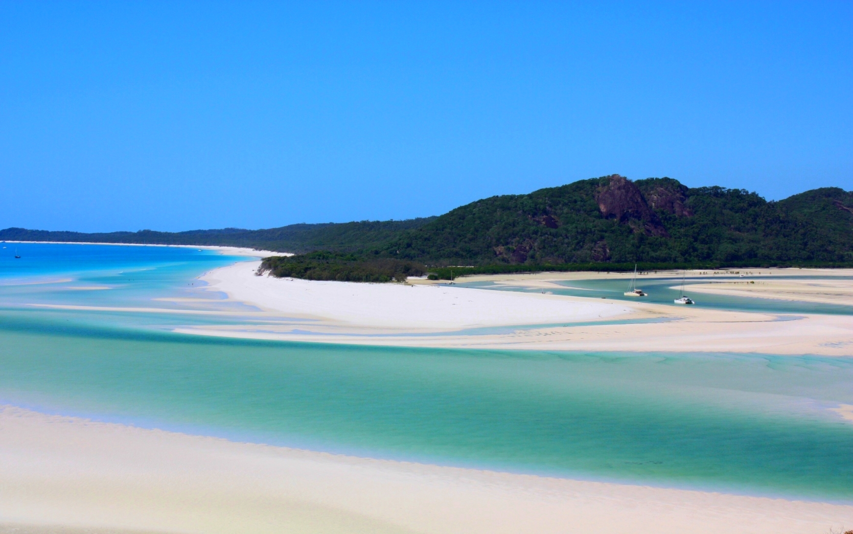 Whitsunday Haven is beautifull place with many colourfull landscape changing all the day according to the tide